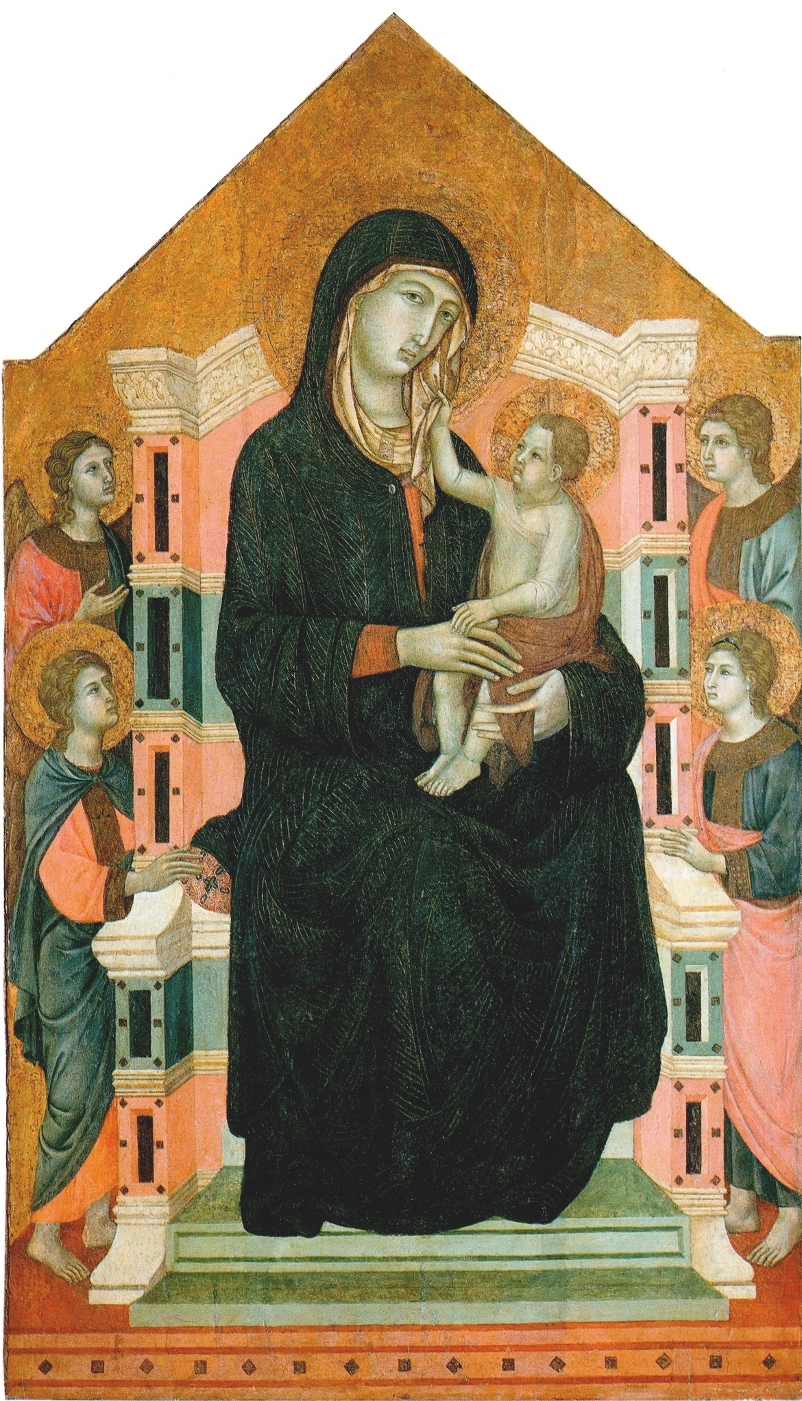 Madonna and Child Enthroned with Angels by Maestro di Badia a Isola, c. 1315, tempera and gold on panel, 172 cm. x 103 cm. (67 x 39 in). Galleria Palazzo Cini, Venice